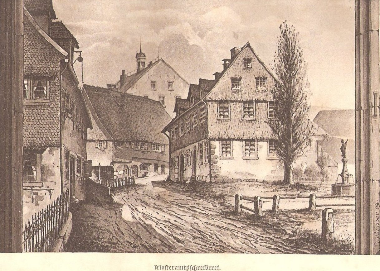 Abbey St. Georg in Black Forest